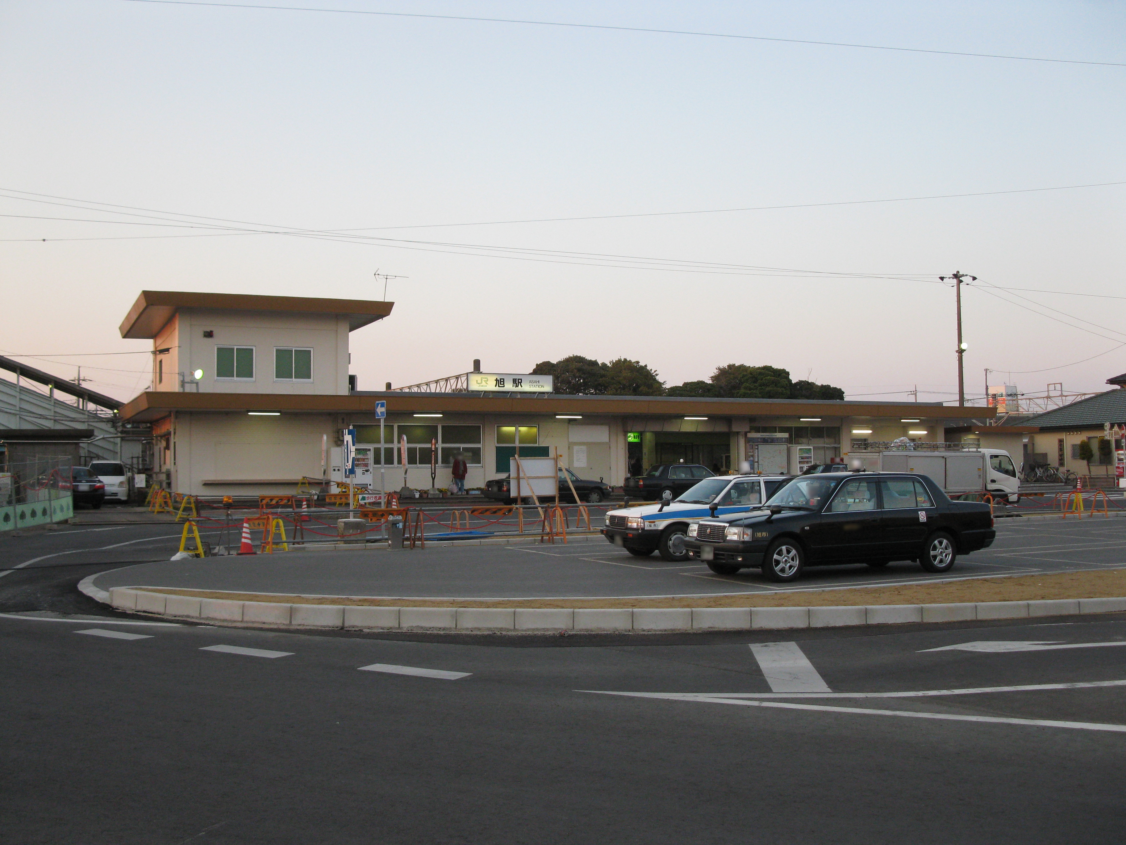 The building of Asahi Station(East Japan Railway Sōbu Main Line)